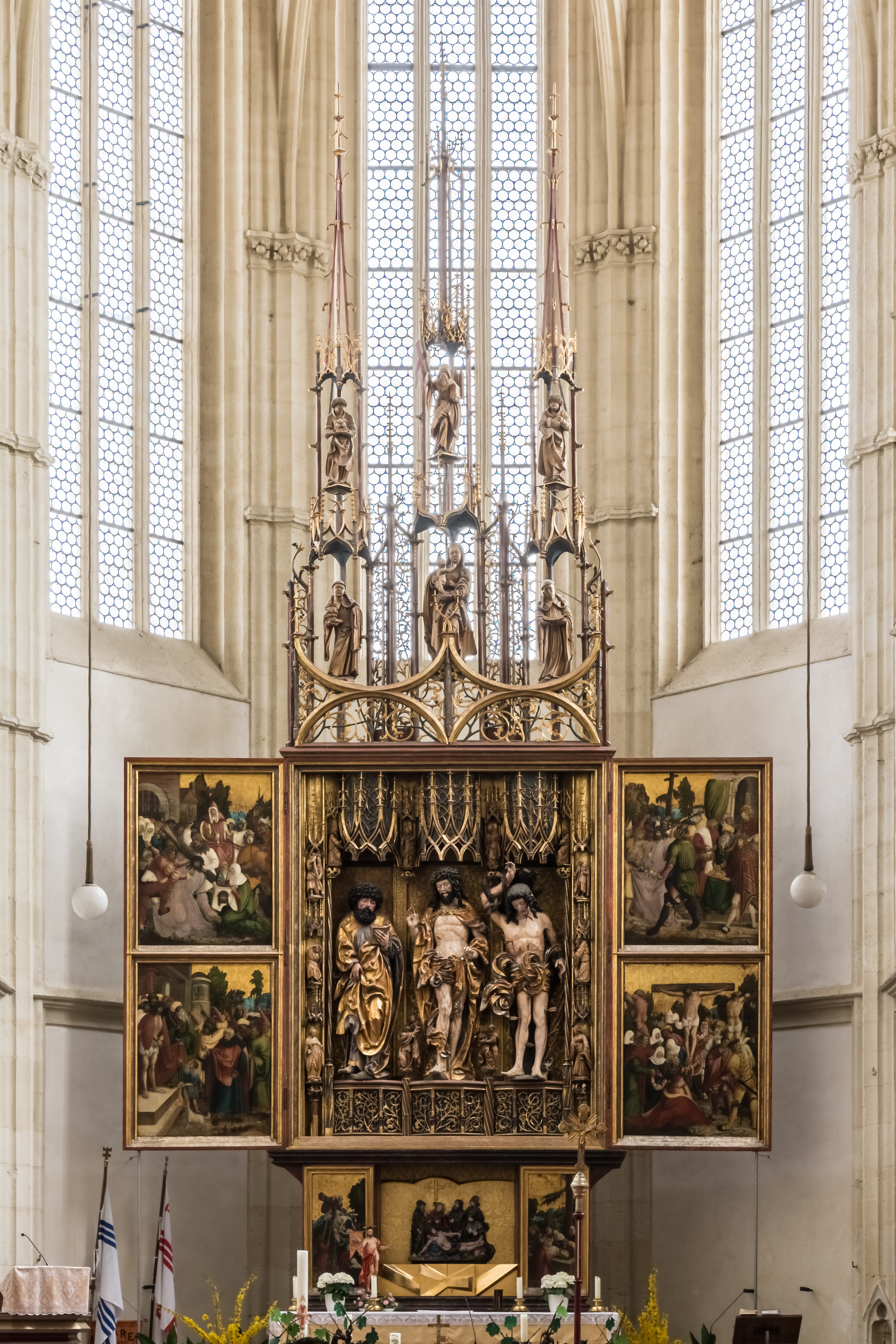 Winged altar at the Church of the Holy Blood in Pulkau, Lower Austria. Anonymous master (called Master of the Pulkau Altarpiece), around 1515.